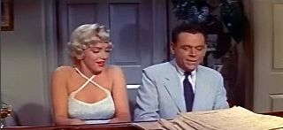 Cropped screenshot of Marilyn Monroe and Tom Ewell from the film The Seven Year Itch